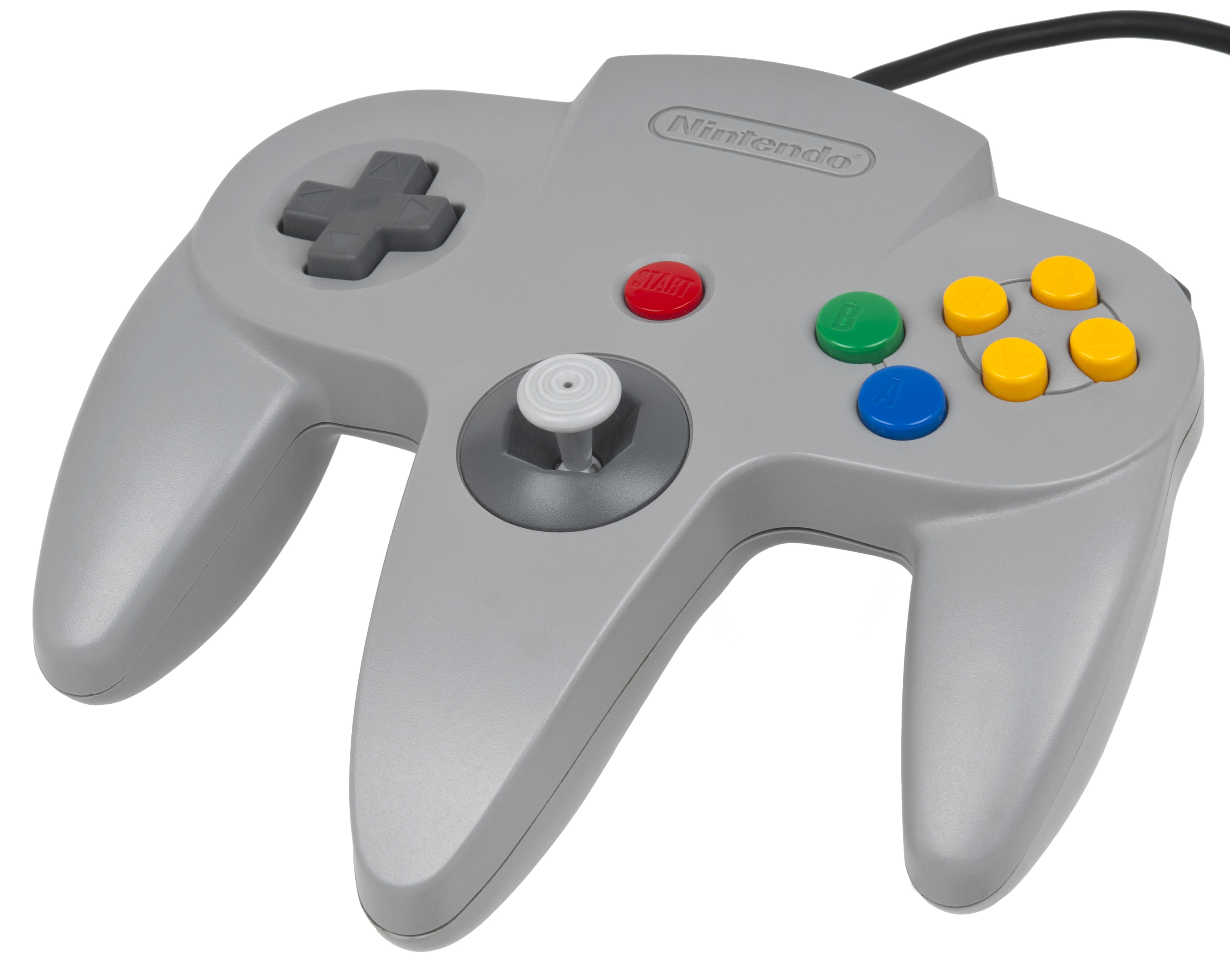 A gray Nintendo 64 controller, the original pack-in controller included with the console.